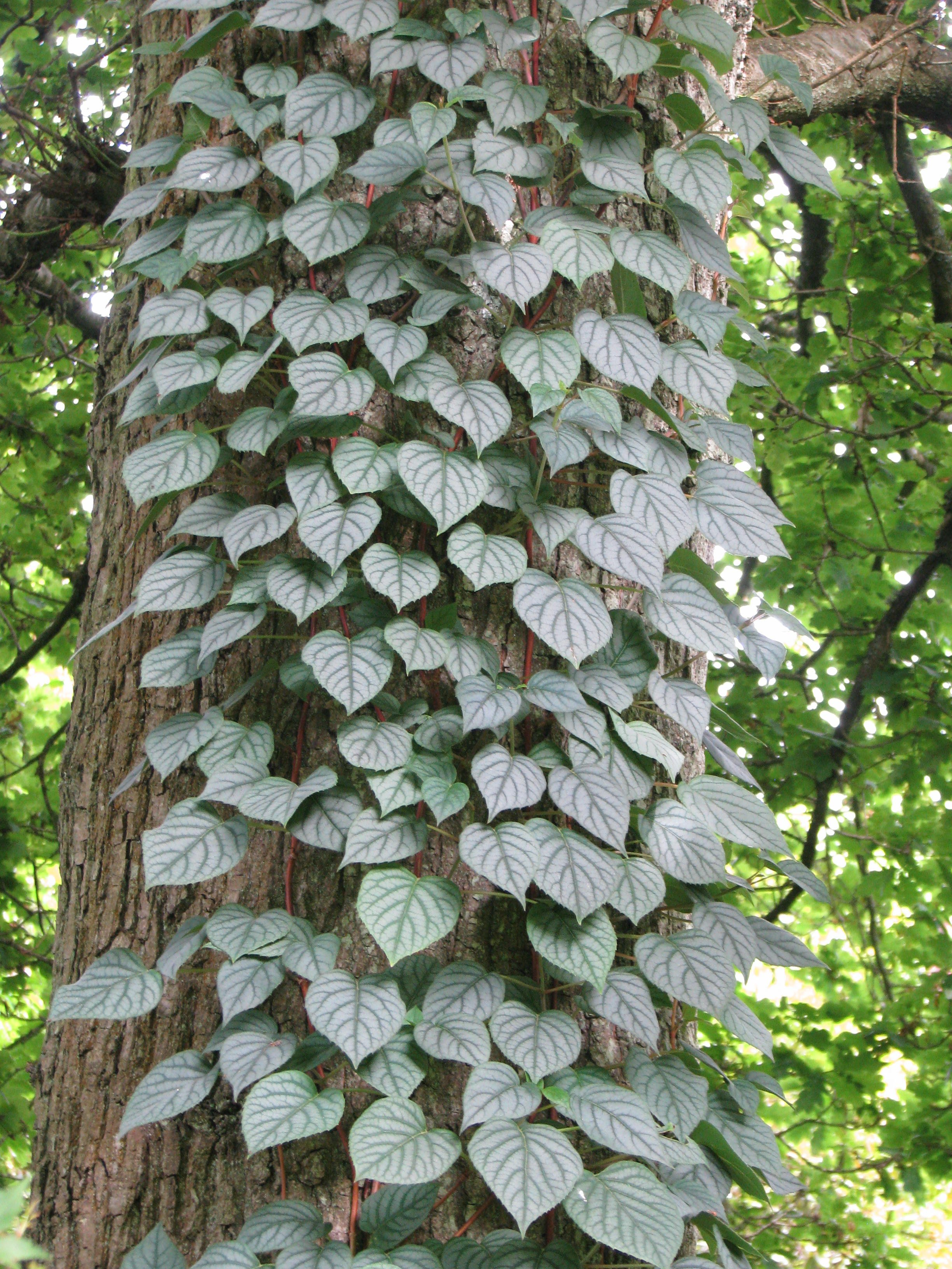 Finally getting going - doing what we bought it for - ie. climbing, not just trailing about on the ground